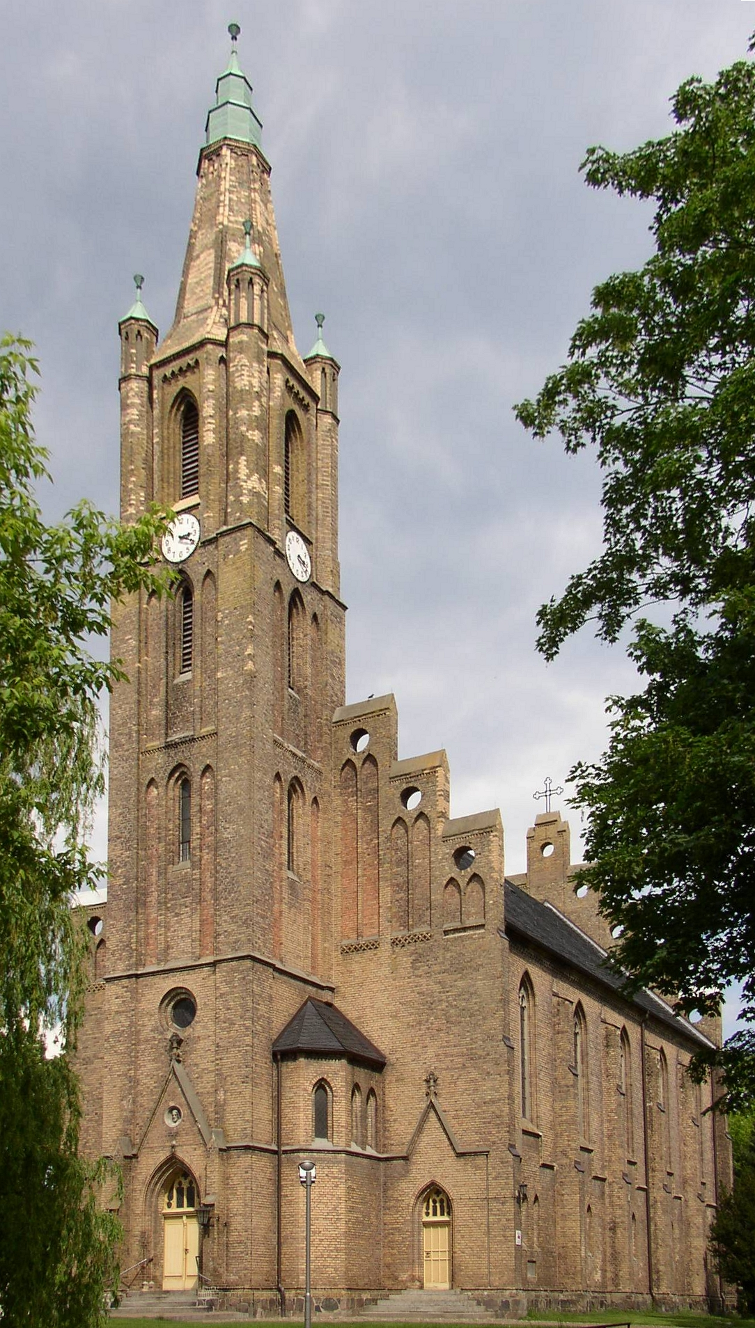 Church in Fehrbellin in Brandenburg, Germany